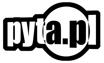 pyta.pl logo